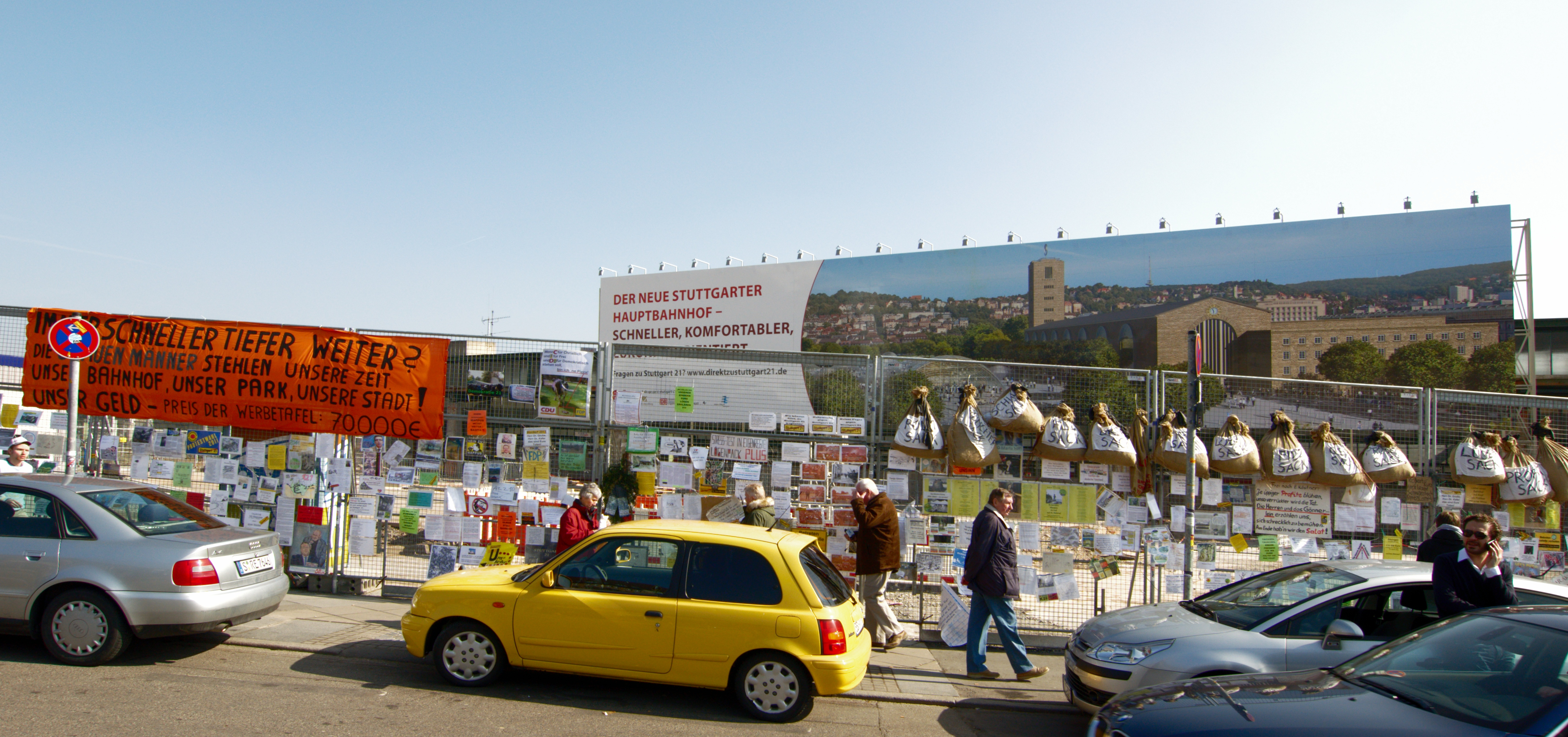 Promotion poster for the Stuttgart 21 project and protest against it on the north side of Stuttgart main station